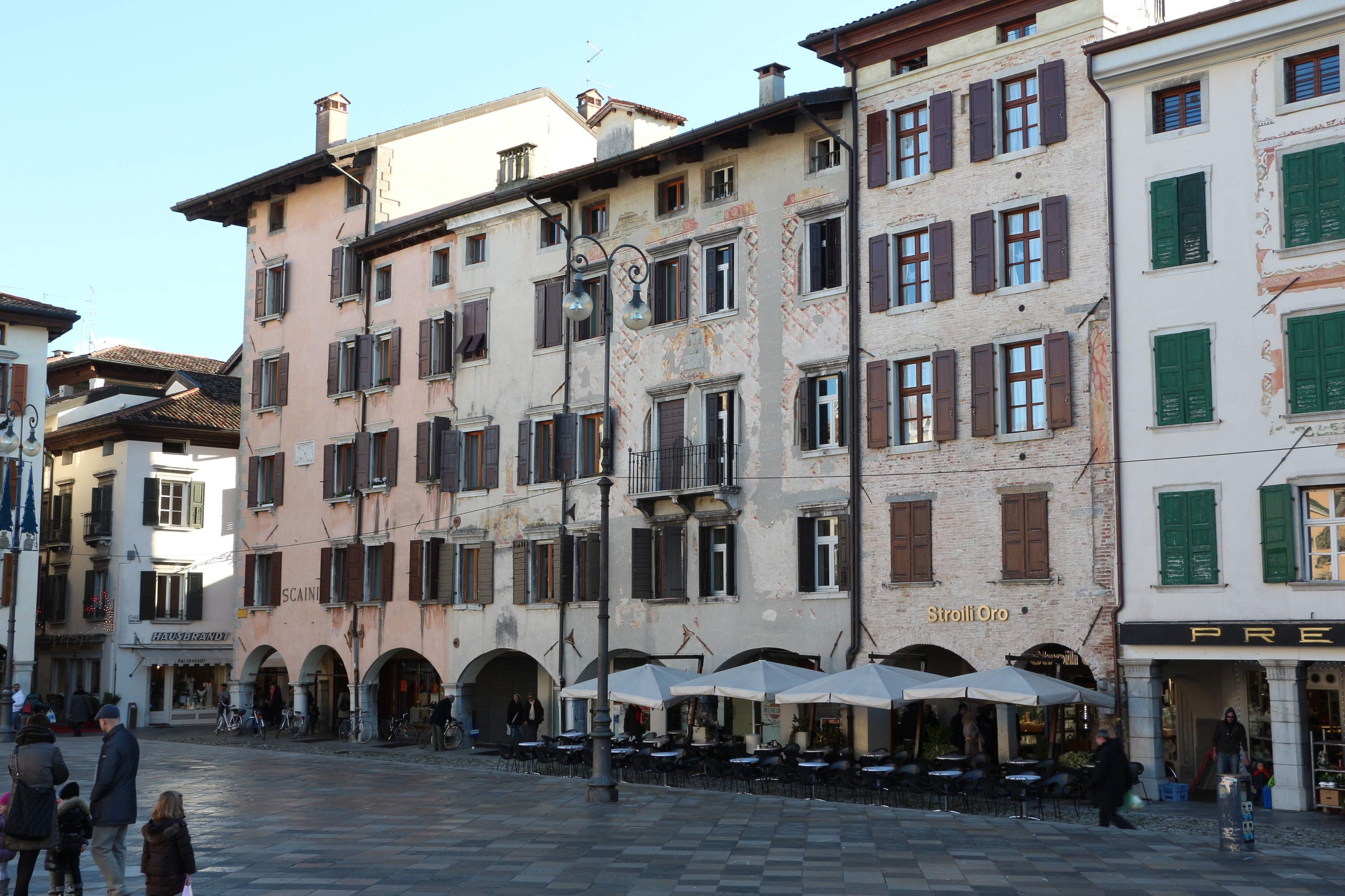 Piazza Giacomo Mateotti Udine Buildings south side